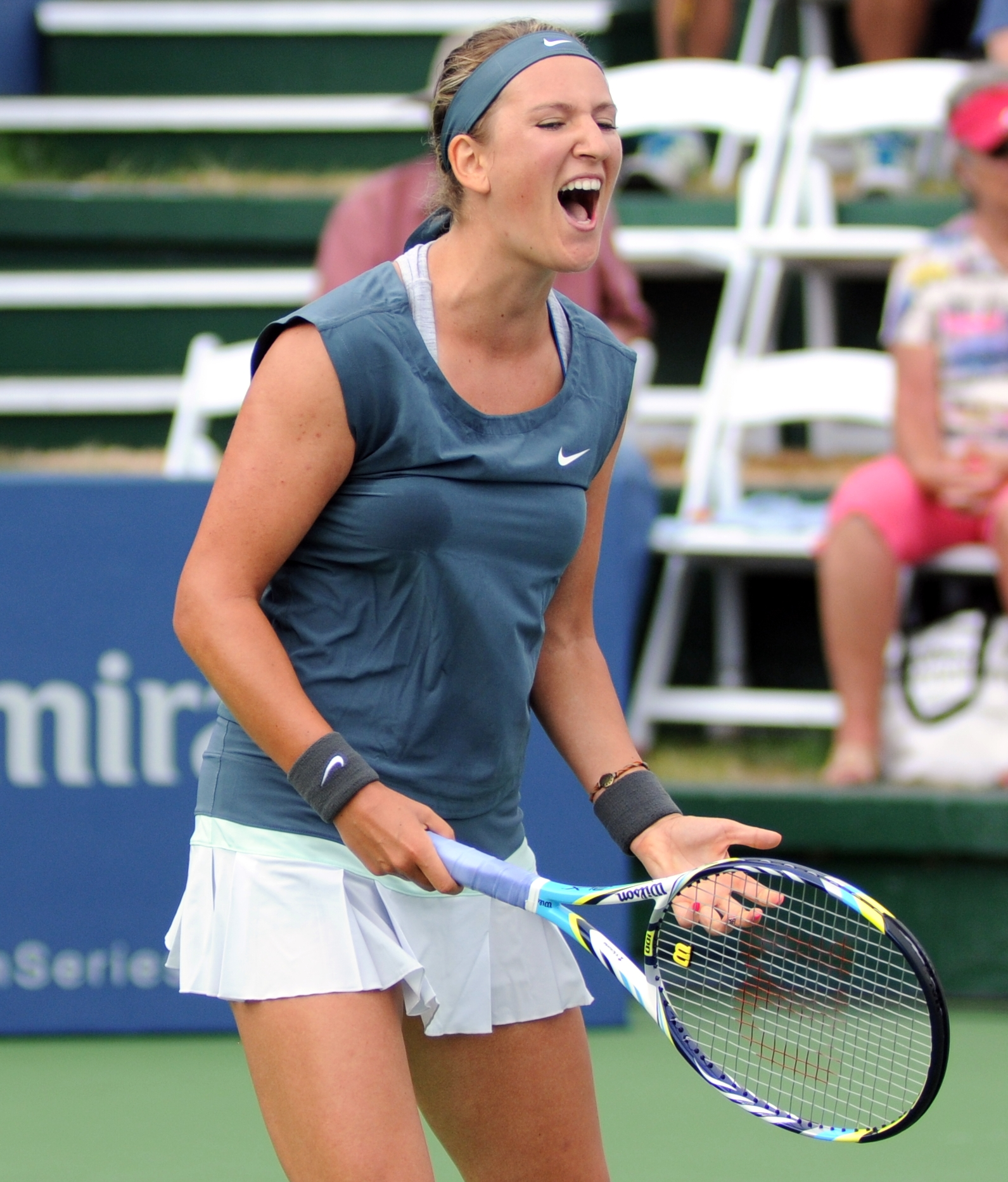 Victoria Azarenka - 2nd Round 2013 Southern California Open